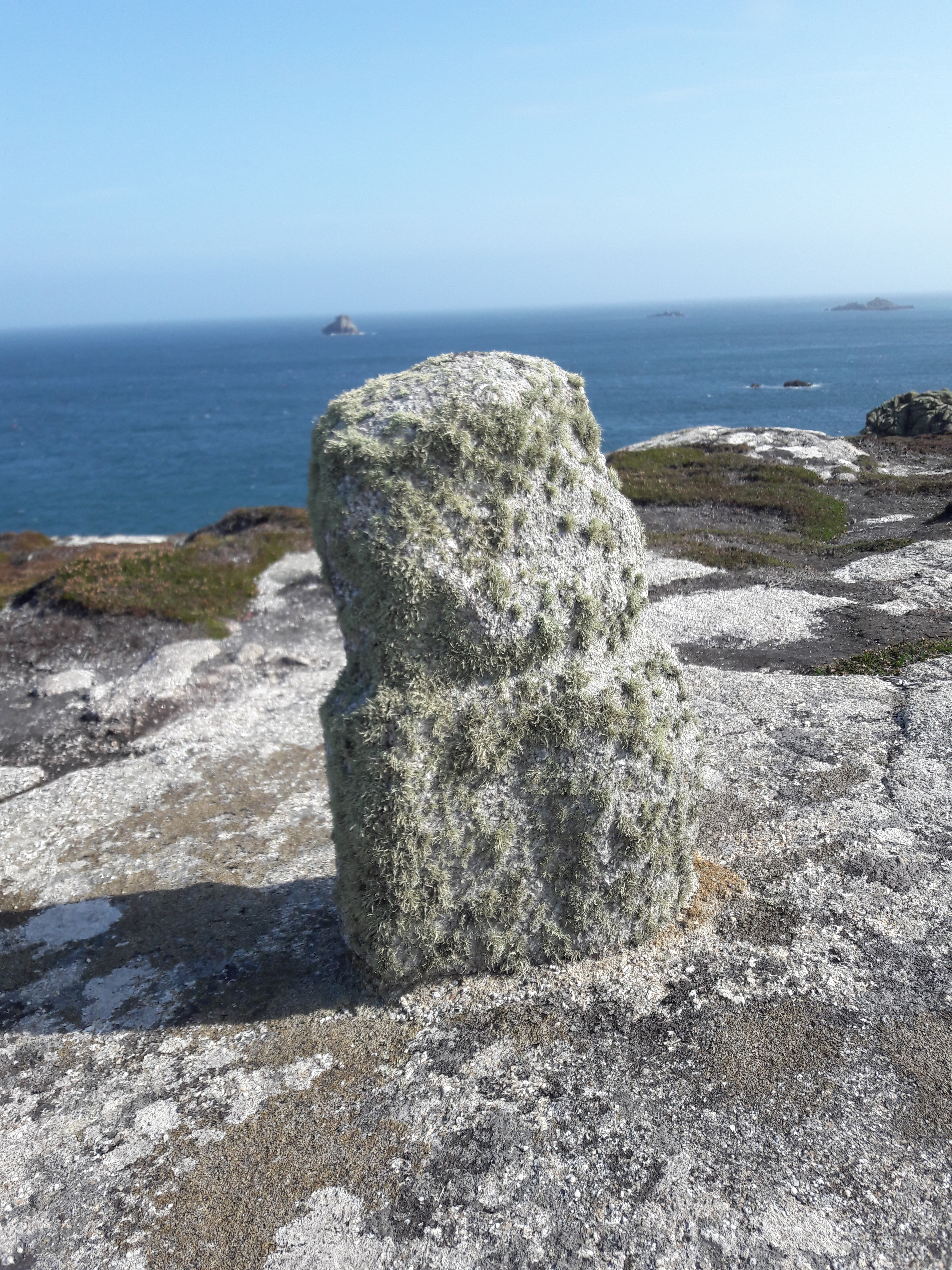 Bronge Age menhir on Chapel Down, St Martin's, Isles of Scilly (September, 2018).